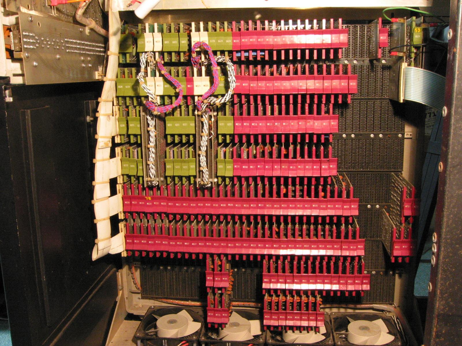 Image showing the internals of a PDP-8/I. Pictured are the CPU (including the major registers and an extended arithmetic unit), memory controller, 4 kilowords magnetic core memory, external bus interface, TTY interface, and paper punched tape interface. All the picture components are manufactured as discrete TTL MSI logic cards and plugged into a common backplane.